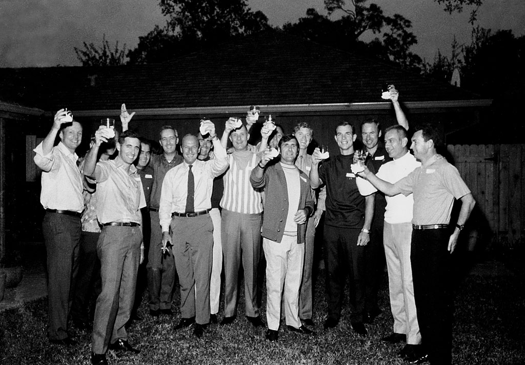 Apollo astronauts & Soyuz 9 crew at a backyard party (left-to-right: Armstrong, Aldrin, Anders, Nikolayev, McDivitt, Conrad, Cunningham, Stafford, Swigert, Gordon, Schweickart, Scott, Lovell, Slayton, Sevastyanov)